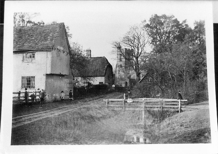 Photograph of Village Farm, the Post Office (now known as Tudor Cottage) and St Nicholas Church Wilden. Original photographer unknown. Children's clothes show photograph to be circa 1900.